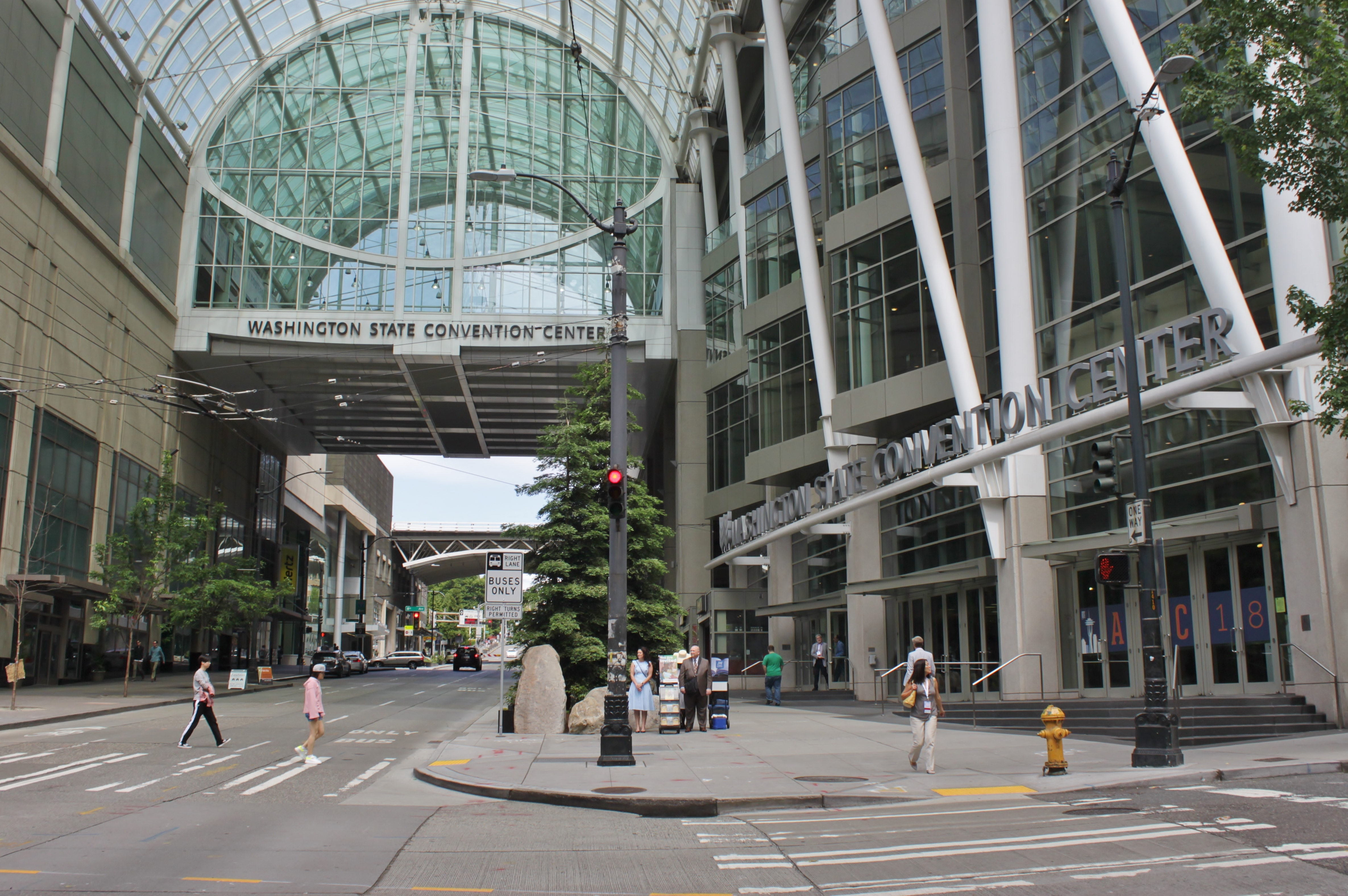 The main entrance to the Washington State Convention Center, seen from 7th Avenue at Pike Street.